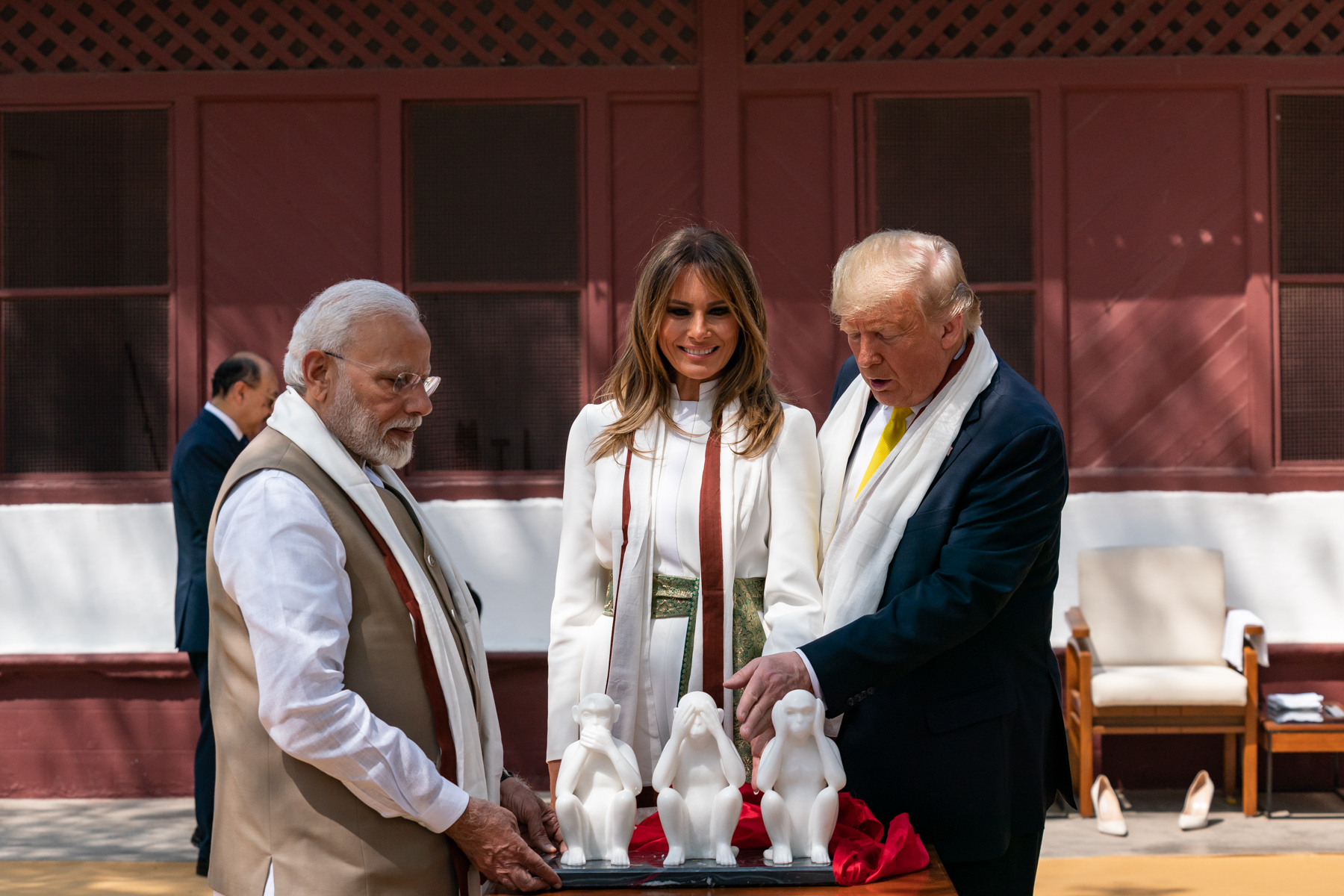 President Donald J. Trump and First Lady Melania Trump, joined by Indian Prime Minister Narendra Modi, look at a gift from the Prime Minister during a visit to the home of Mahatma Gandhi Monday, Feb. 24, 2020, at the Gandhi Ashram in Ahmedabad, India. (Official White House Photo by Andrea Hanks)